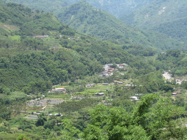 Lalachi is a place in the northern part of Alishan Township,its name from Tsou language.Lalachi is divided into two place：Neilaichi、Wailaichi.This picture shows Wailaichi.